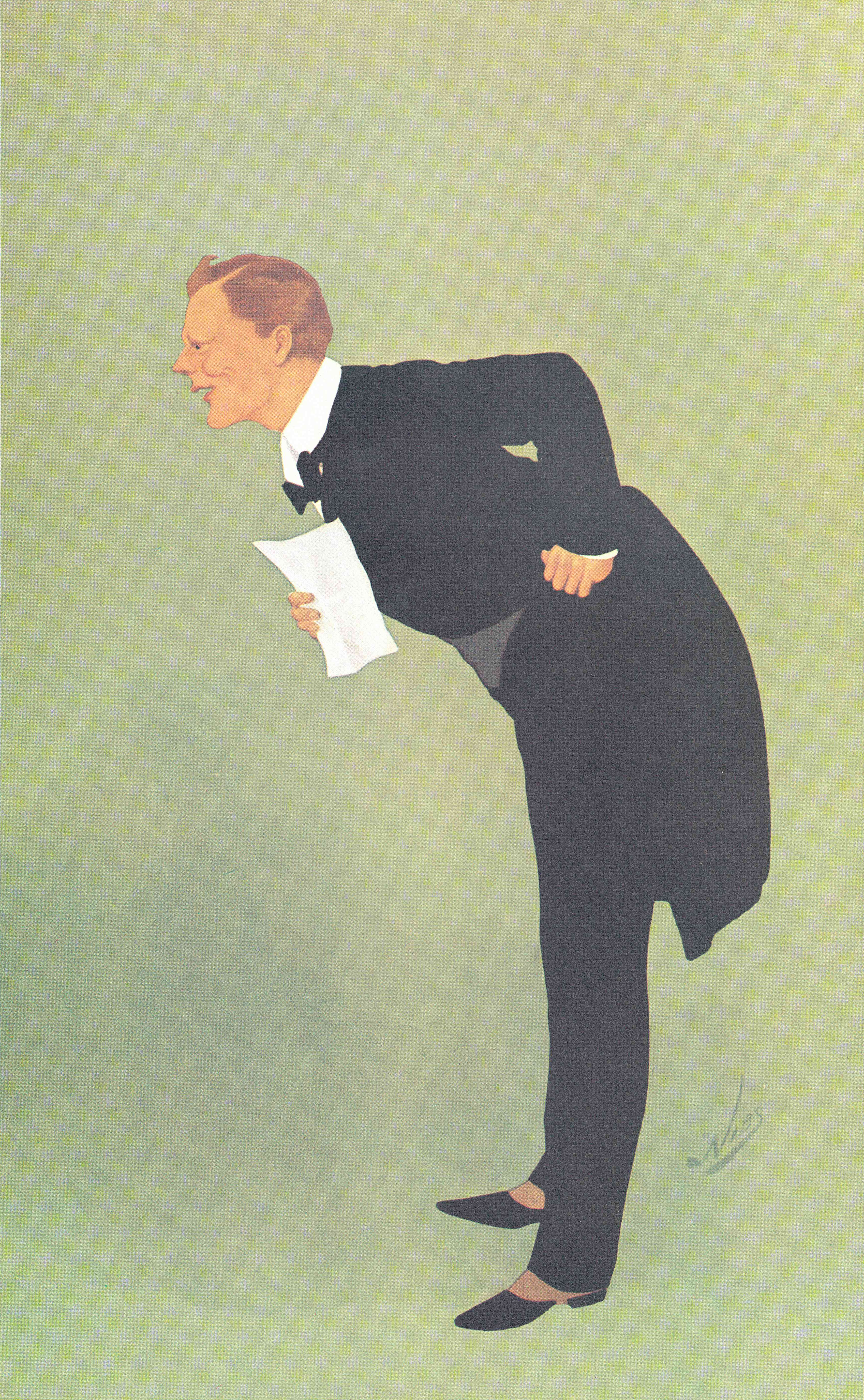 Men of the Day No.1269: Caricature of The Rt Hon Winston Churchill. Caption reads: "Winnie"